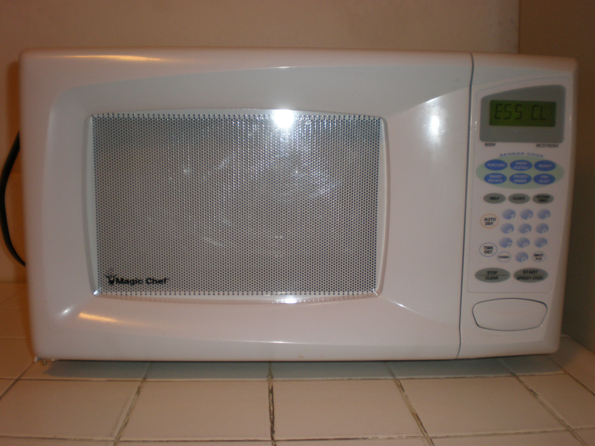 A Magic Chef MCD790SW microwave oven